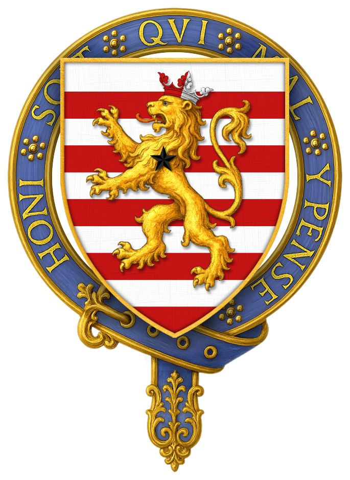 Coat of arms of Sir Thomas Brandon, KG See Sir Thomas' stall plate, still intact, within its original stall at St. George's Chapel - barry of ten argent and gules, a lion rampant or, armed and langued azure, crowned per pale gules and argent, on the shoulder a mullet for difference.